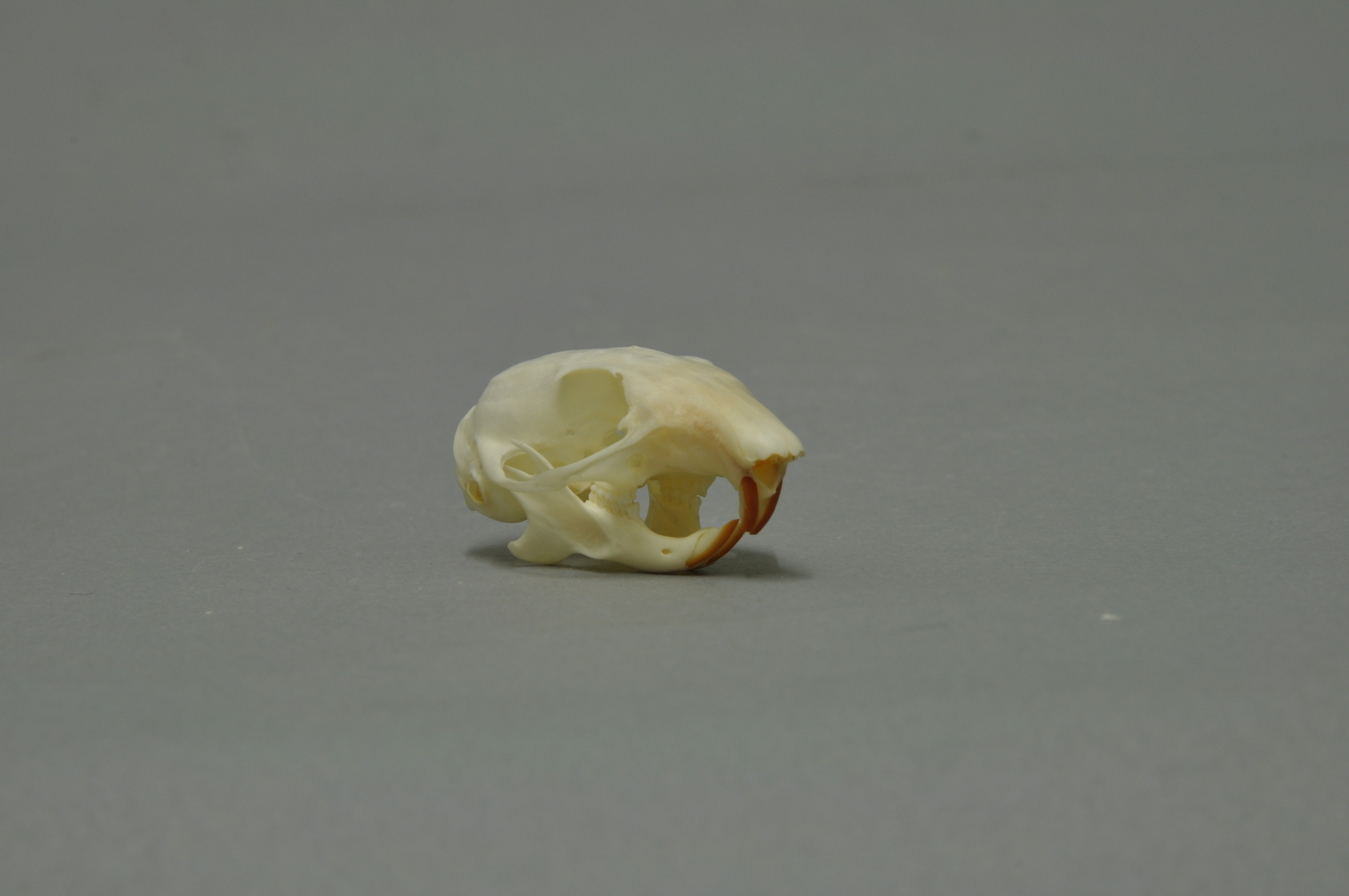 Townsend's chipmunk Neotamias townsendii, skull, Coll. Museum Wiesbaden